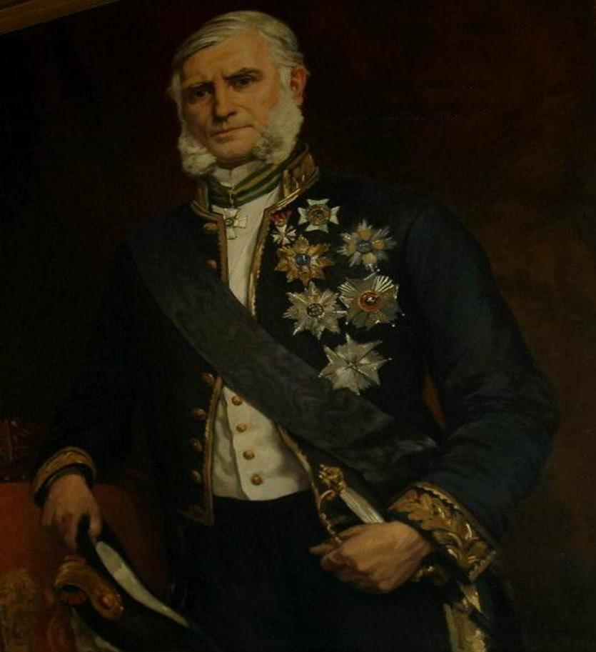 Marie-Camille-Louis de Gonzague-Ghislaine Baron de Tornaco Born in Sterpenich, April 6, 1807, died at Brussels, 8 March 1880 President of the Belgian Senate, 1879-1880. Grand Officer of the Order of Leopold, Civic Cross 1st Class. Grand Cross of the Order of St. Michael of Bavaria, the Order of Dutch Lion, Order of the Polar Star of Sweden and the Order of Frederick of Württemberg, Grand Officer of the Order of Oak Crown of Luxembourg.